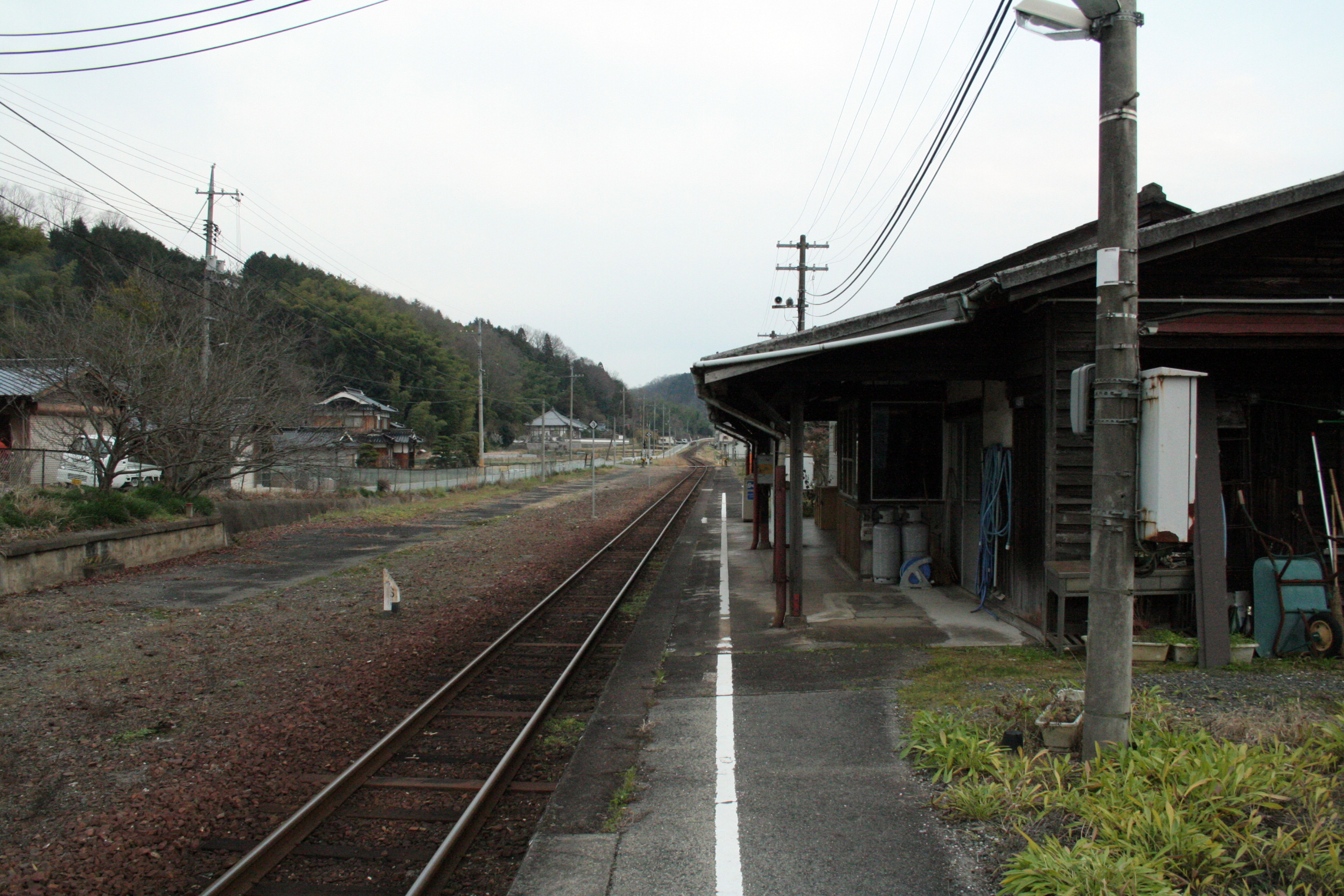 Scenery on east side seen from station.